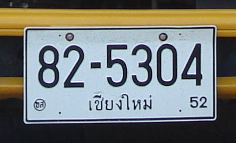 Thai truck plate